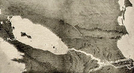 Panorama of proposed Nicaragua Canal